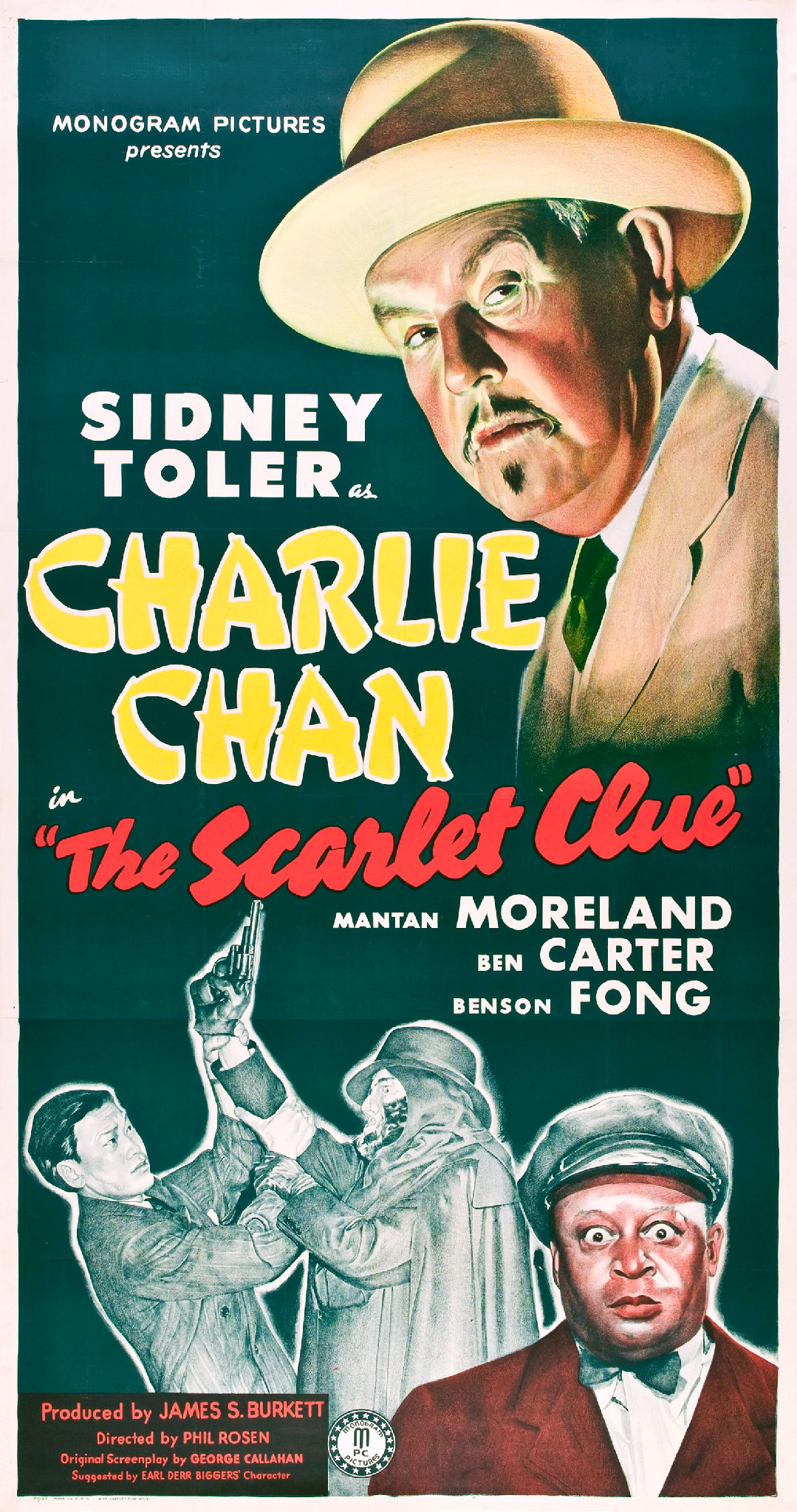 Poster for the 1945 film The Scarlet Clue. The item has no copyright markings on it as can be seen in the links above. At bottom left is 45/47 Made in USA #The Scarlet Letter and what looks like the number 47.